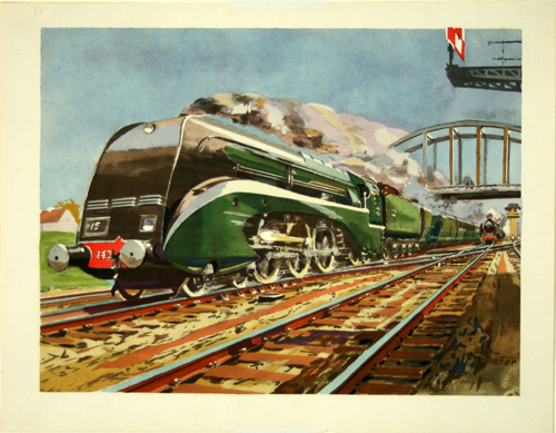 Painting of the locomotive SNCF Class 232 R by Schefer